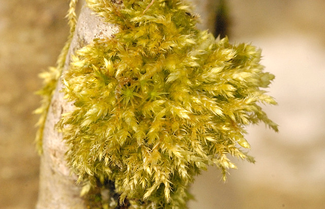 Hypnum cupressiforme from Commanster, Belgian High Ardennes .